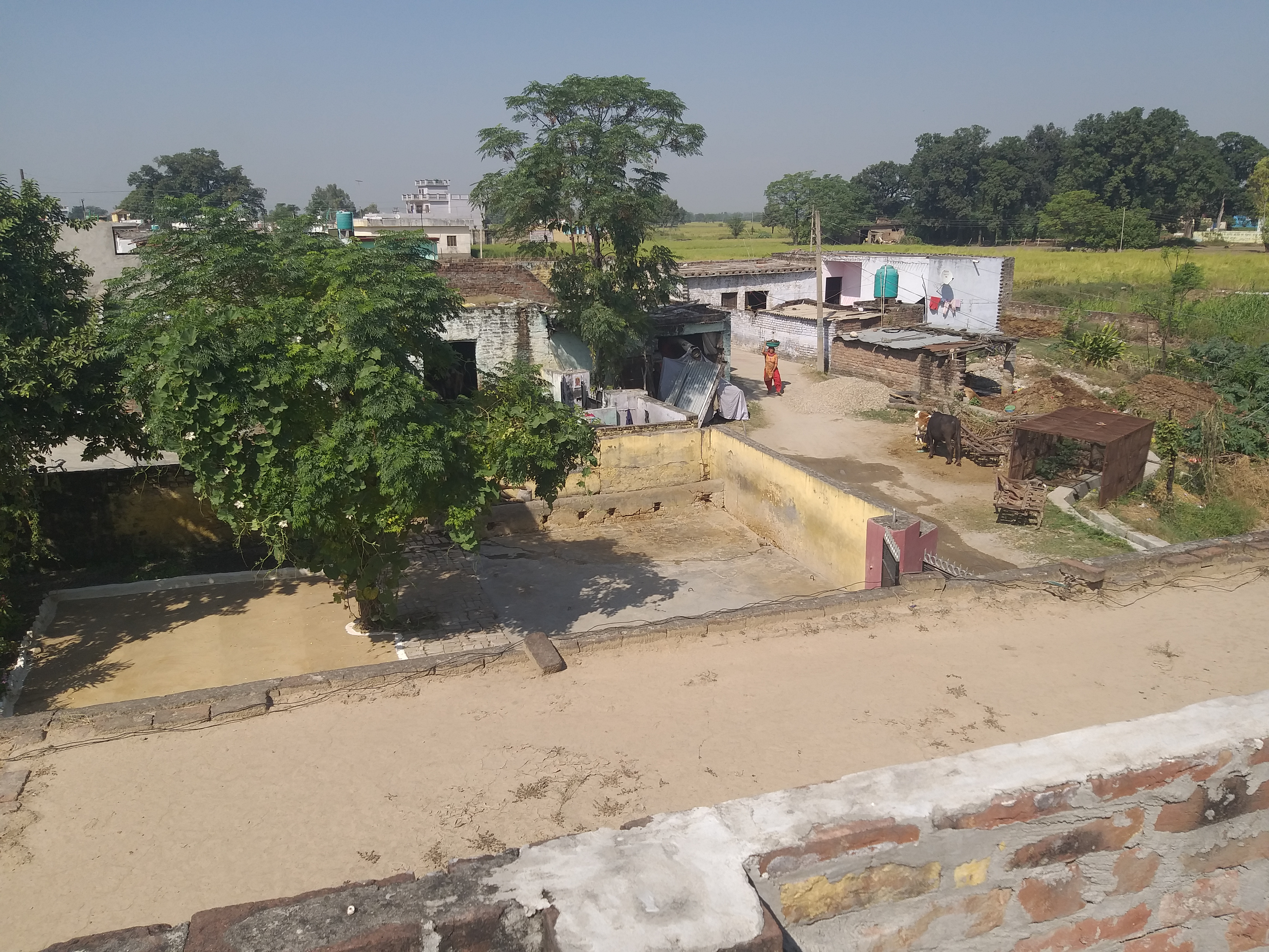 Chak Paras village Houses Architecture from the roof of Lambardar Bahadur Lal